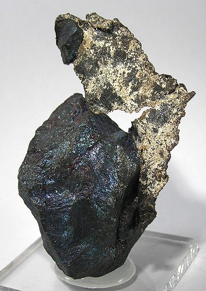 Silver, Bornite Locality: Noria Mine, San Pantaleón de la Noria (La Noria de San Pantaleón; Noria de la Pentalón), Municipio de Sombrerete, Zacatecas, Mexico (Locality at ) Size: 7.5 x 4.3 x 3.4 cm. Bornite is a copper iron sulfide, and at this rich mine in Zacatecas, it is an important ore that sometimes had thin fissures that were sometimes found with these veins or leafs of native silver filling them. Here, the silver leaf has been excavated so that it stands up dramatically off the iridescent bornite that served as host, creating quite a dazzling specimen of native silver, from a classic Mexican locality. The silver leaf here measures over 6 cm from end to end. Ex. Martin Zinn Collection.